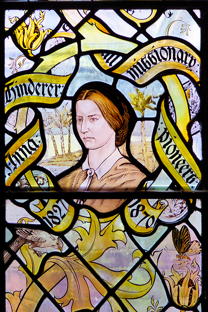 Liverpool Cathedral Staircase Window, Anna Hinderer missionary to Ibadan